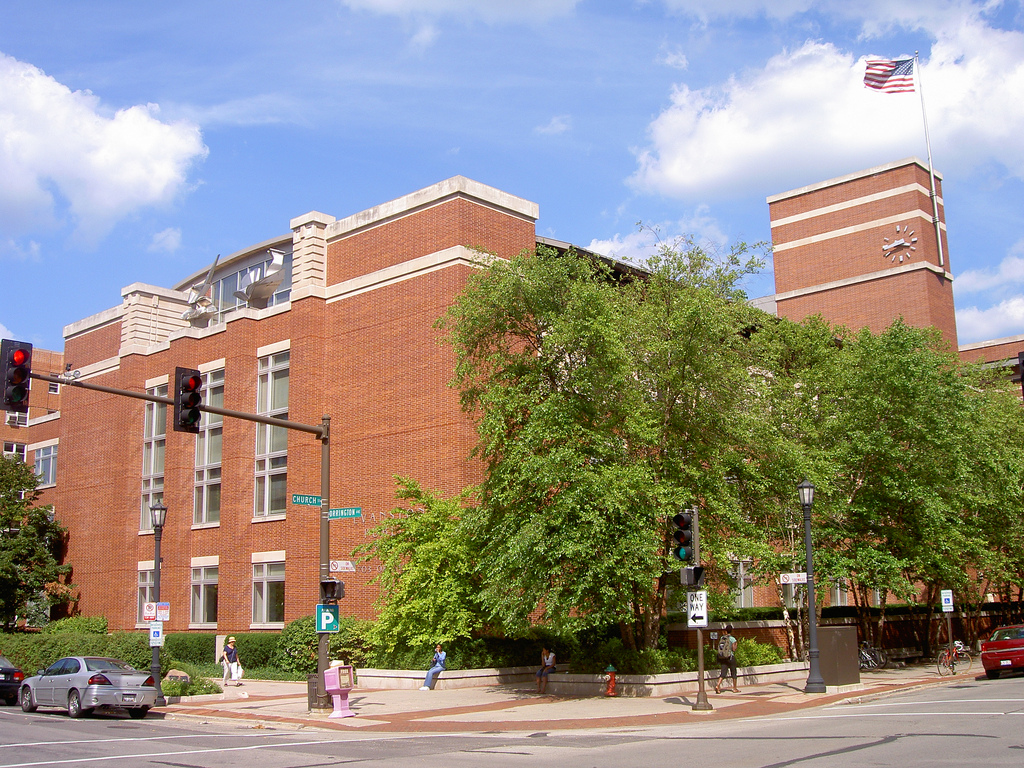 Evanston public library external appearance